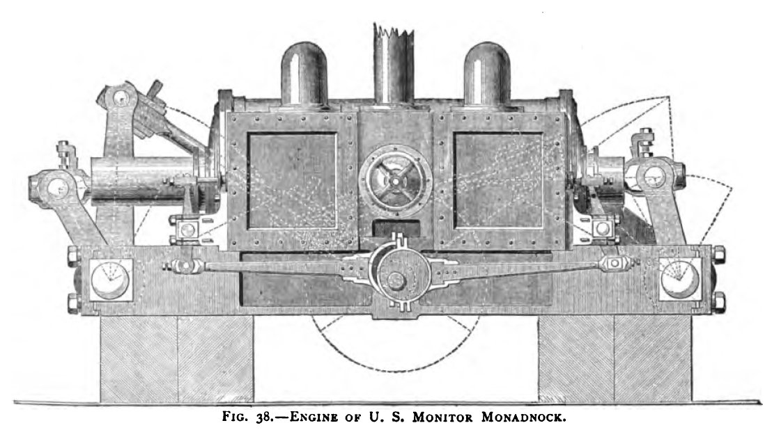 Ericsson vibrating-lever engine of the American Civil War monitor USS Monadnock (1863). This type of engine had two horizontal annular or ring-shaped cylinders placed back-to-back, with pistons attached to hollow trunks containing the connecting rods. This image shows the port (left) trunk/connecting rod assembly almost at full extension, while the connecting rod and trunk of the starboard (right) cylinder is almost fully retracted.